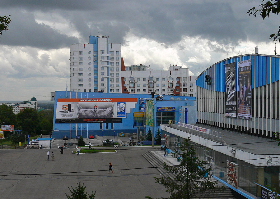 Sakharov's Square in Barnaul